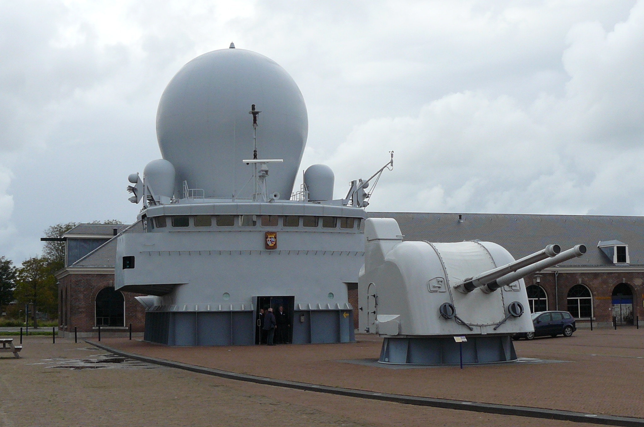 Bridge of Dutch navy vessel De Ruyter, now part of the exhibition of the Navy Museum in Den Helder, Netherlands